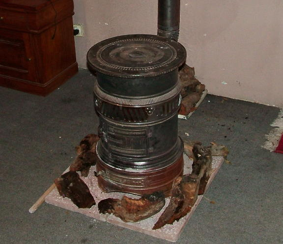 A bukhari in a house in Karte Se, Kabul, Afghanistan in 2006. Used in Bukhari (heater)